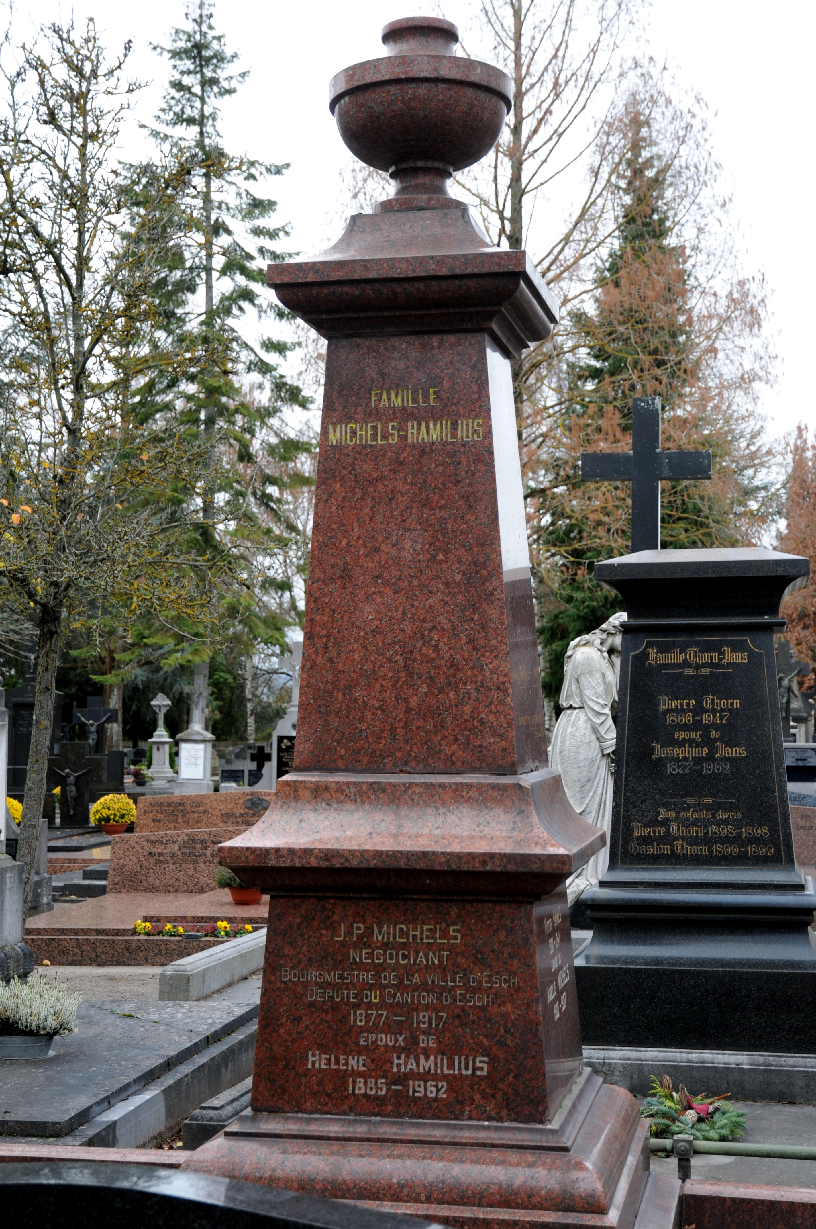 Gravestone, Saint Joseph Cemetery, Esch-sur-Alzette) .